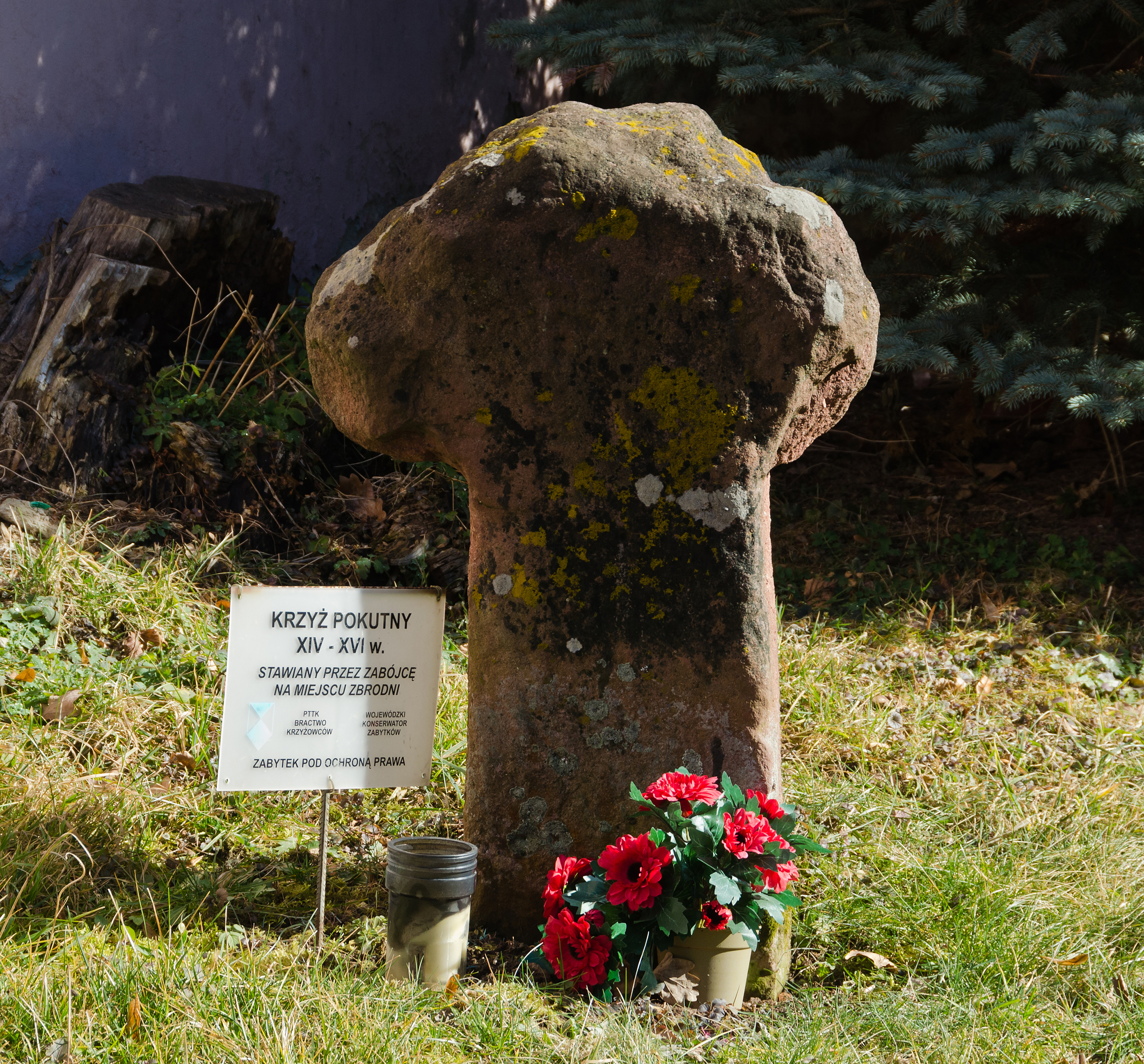 St. Bartholomew church in Czerwieńczyce, stone cross at the church